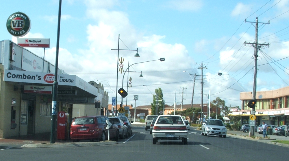 Looking north along Aviation Rd, main street of Laverton, Victoria, Victoria, Australia. Dashboard vents are faintly visible in bottom of photo.